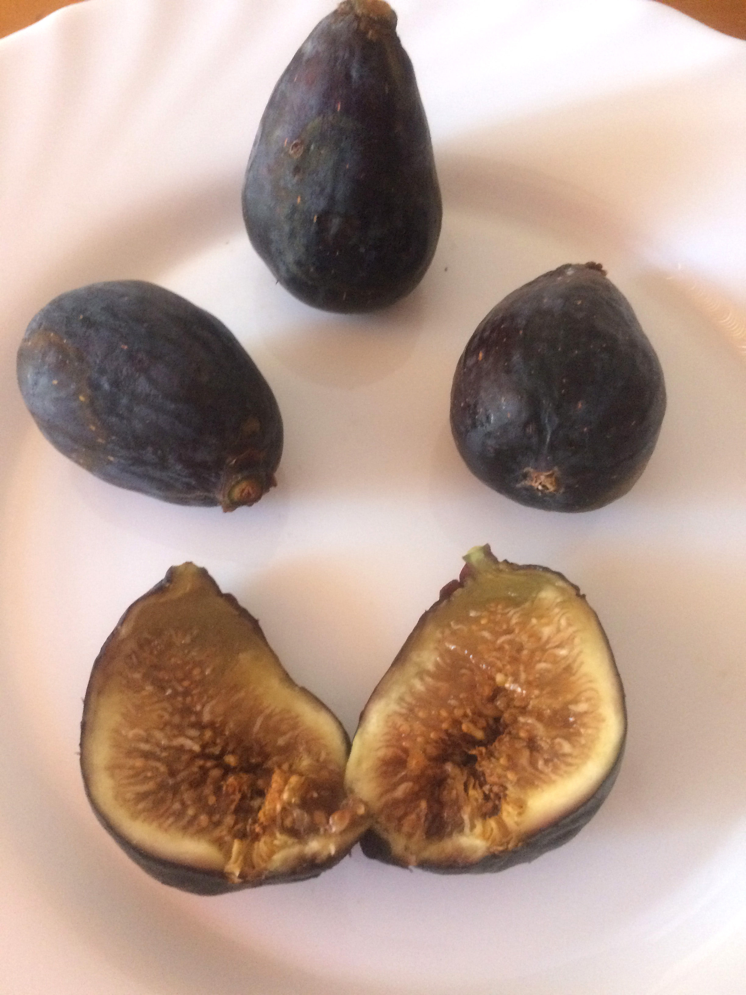 Figs Pellejo de Toro